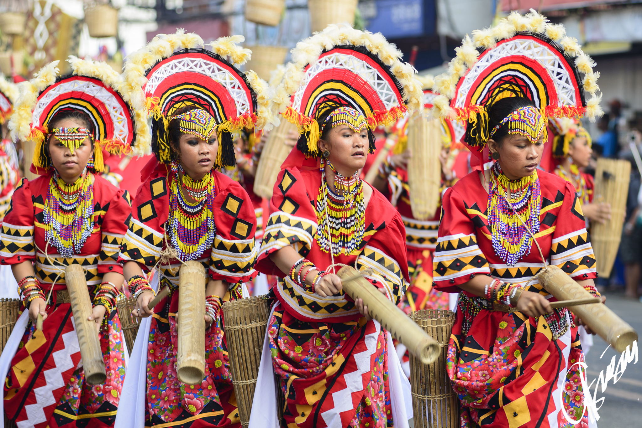 Women in traditional Manobo dress (Kaamulan Festival 2017, Bukidnon, Philippines)